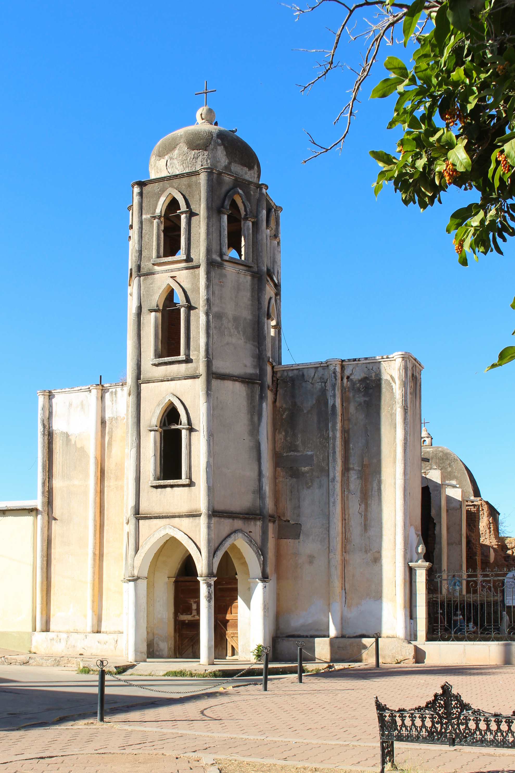 Templo de la Purísima Concepción en Baviácora Sonora, comúnmente conocido como el Templo viejo.